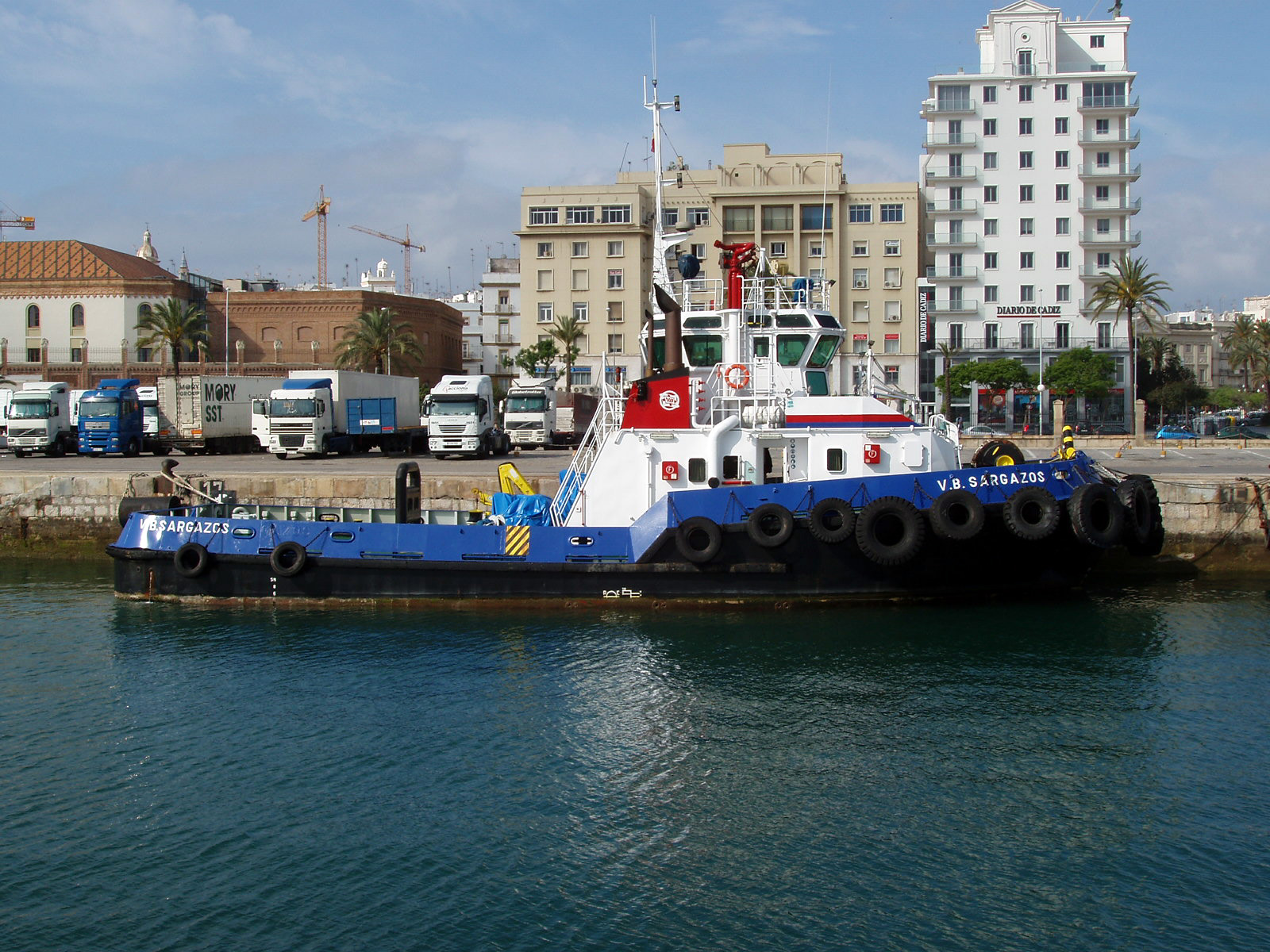 Tugboat V.B. Sargazos, Port of the Bay of Cadiz, Spain IMO Number: 9181431 MMSI Number: 224524000 Callsign: EAUL Length: 31 m Beam: 8 m